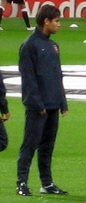 Croatian football (soccer) player Eduardo da Silva